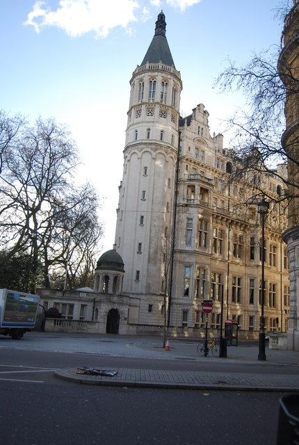 National Liberal Club, Whitehall Place, London. Also home of the Savage Club.